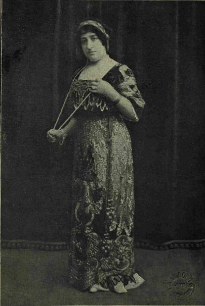 Emília Baró i Sanz, Amadeo photographer, El teatre Català 29.2.1912